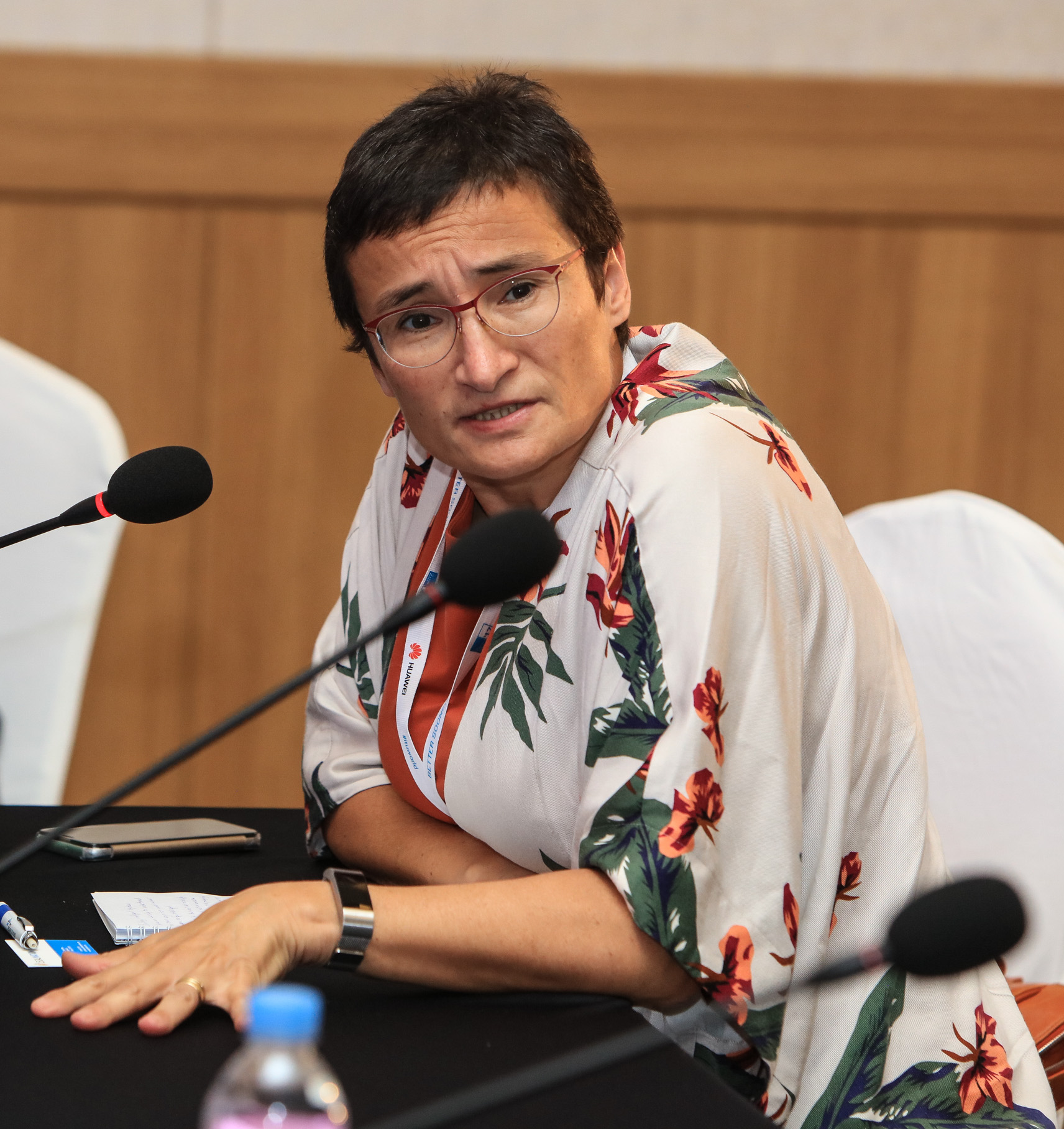 Virginia Dignum, Prof, Delft University of Technology, - ©ITU/K.Y.Lee